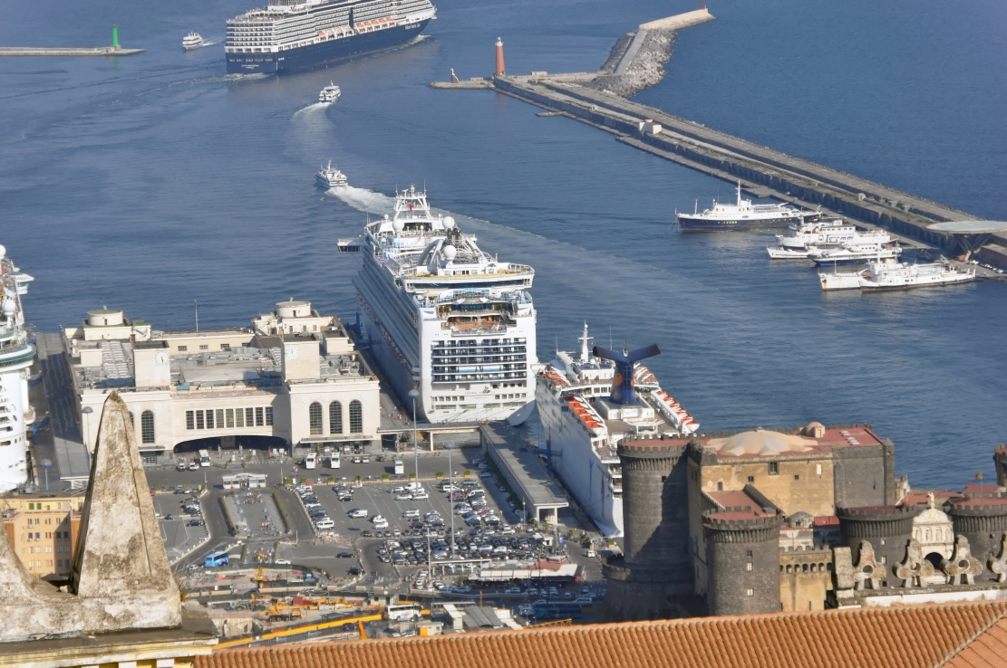 Neapel 2012